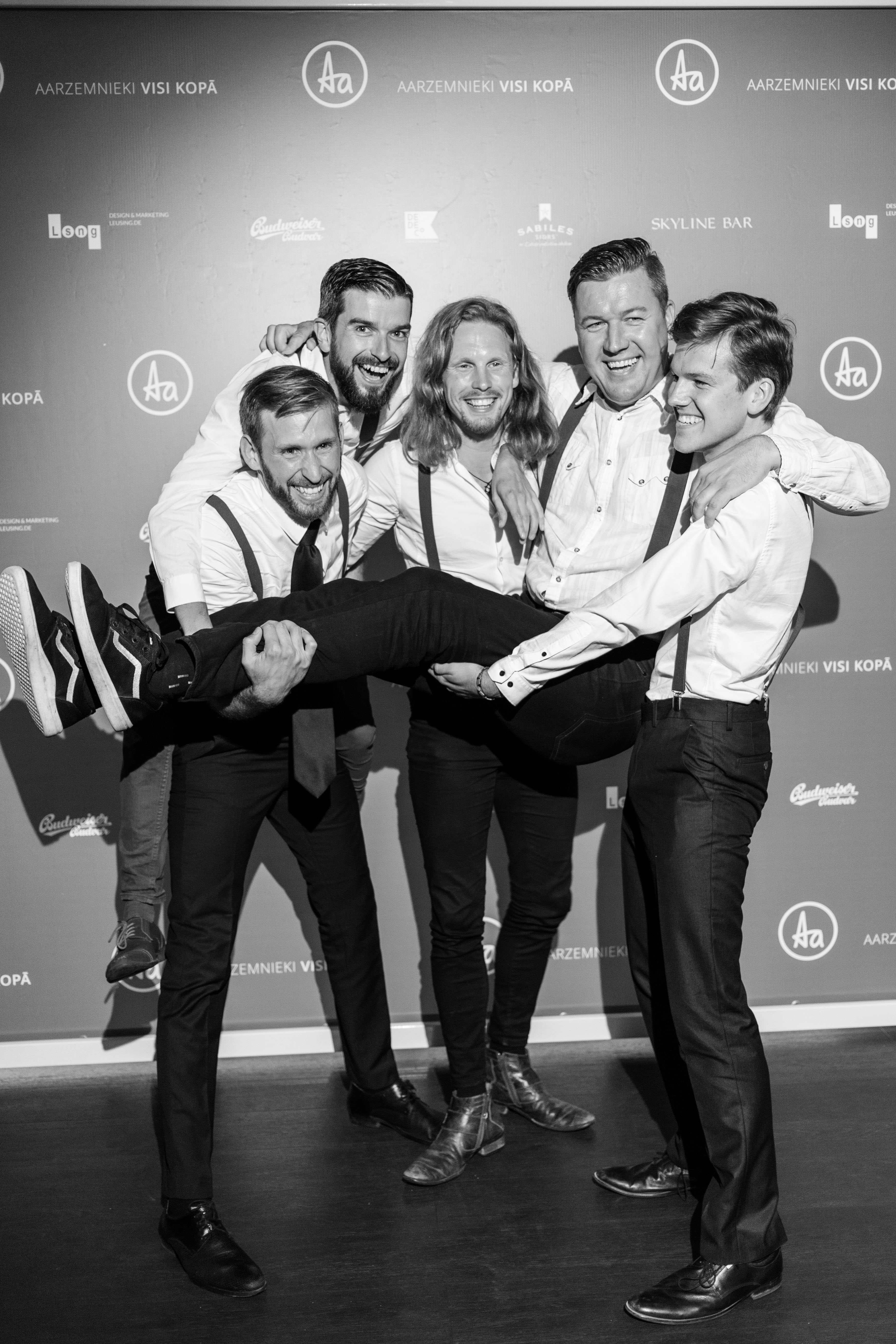 Aarzemnieki (2017, album launch "Visi kopā")